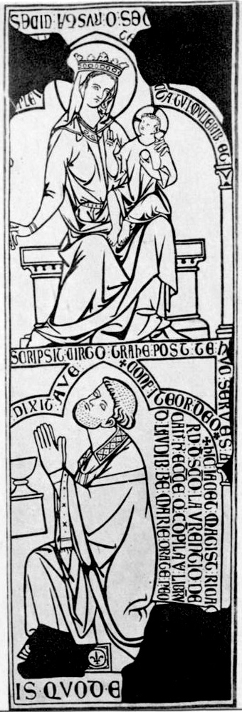 Epitaph of Richard de Saint-Laurent in Notre-Dame des Andelys